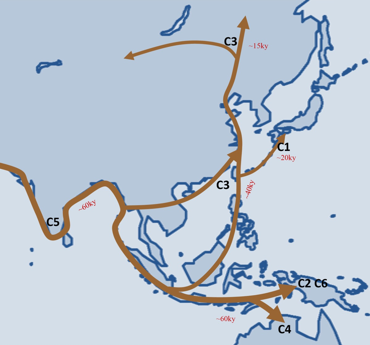 Migration of the Y chromosome haplogroup C in East Asia. Broken lines represent alternative migration routes. Text "ky" in the figure means thousand years ago. Cropped from File:Migration of the Y chromosome haplogroup C, D, N and O in East Asia.jpg.